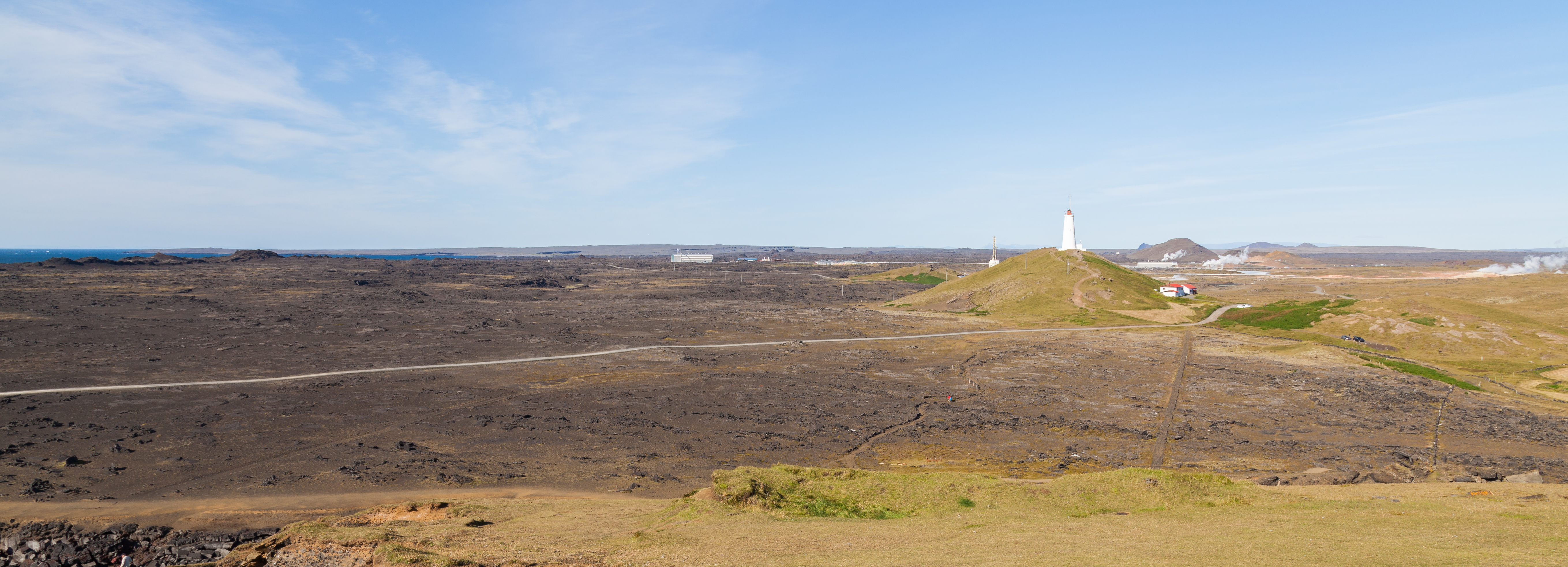 Valahnukur, Suðurnes, Iceland